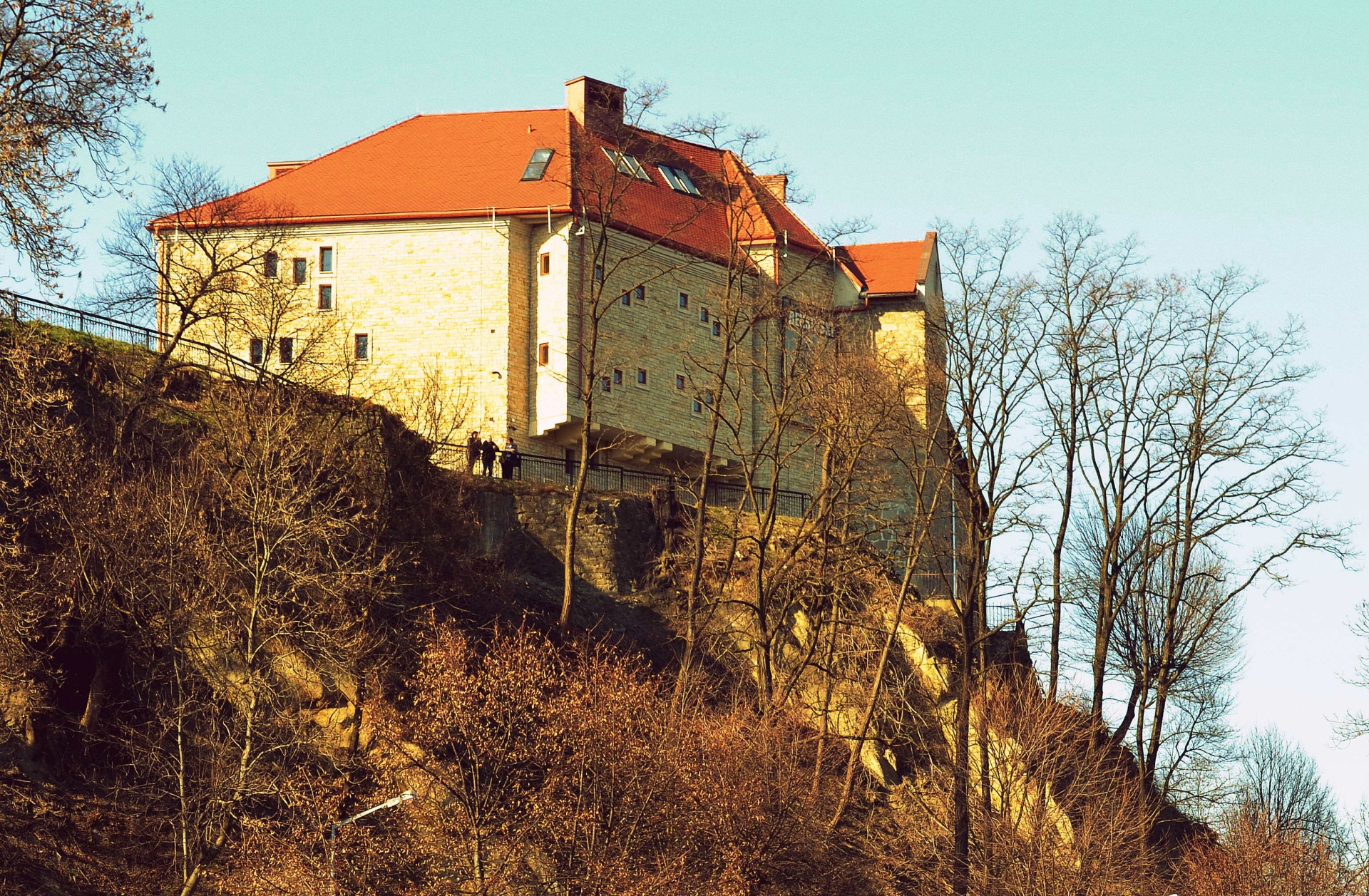 Galerie für Kunst von Zdzislaw Beksinski